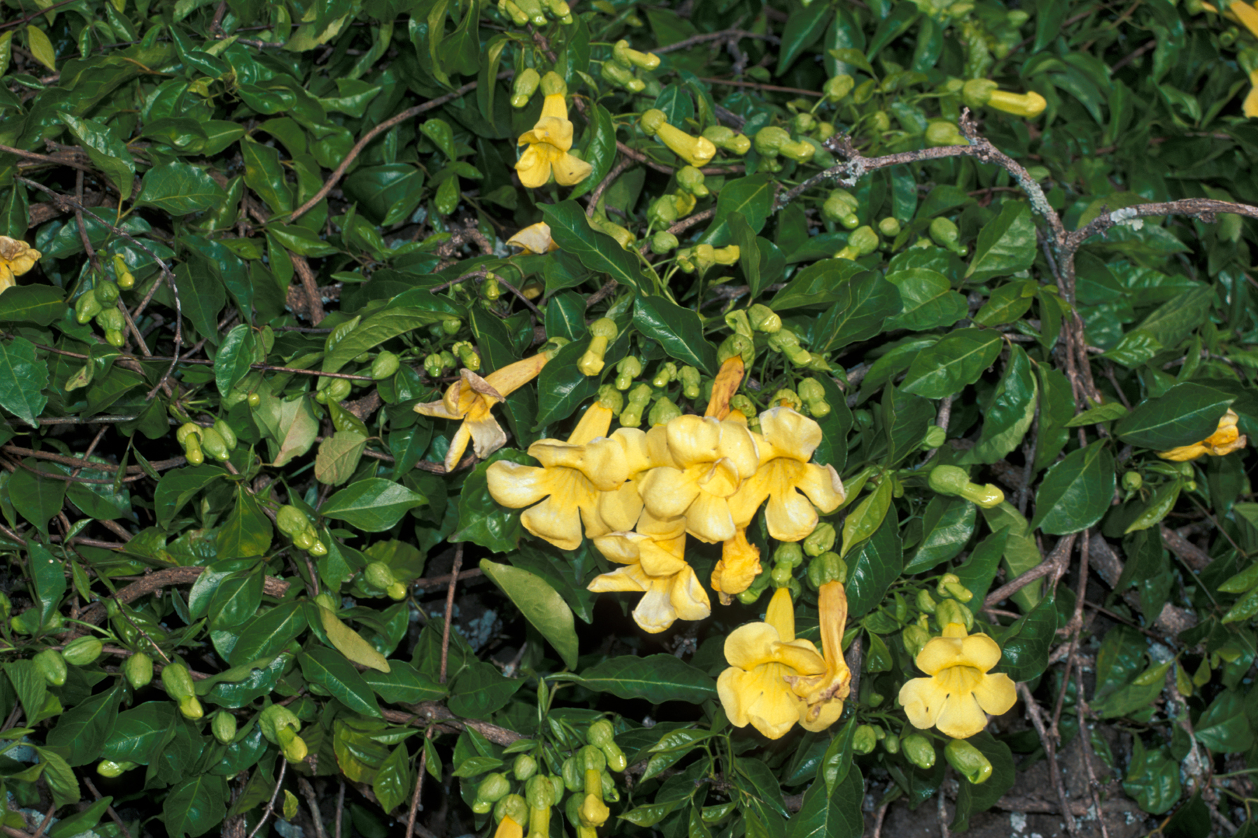 Macfadyena unguis-cati (flowers). Location: Maui, Makawao